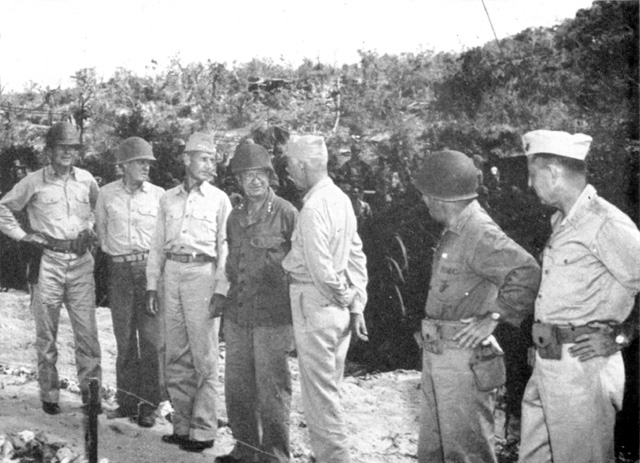 US COMMANDERS gather for flag-raising at conclusion of Tinian operation. From left to right: Admiral Hill (Commander Northern Attack Force), General Schmidt (Commander Northern Troops and Landing Force), Admiral Spruance (Commander Fifth Fleet), General Smith (Commander Expeditionary Troops), Admiral Turner (Commander Expeditionary Force), General Watson (Commander 2d Marine Division) and General Cates (Commander 4th Marine Division).